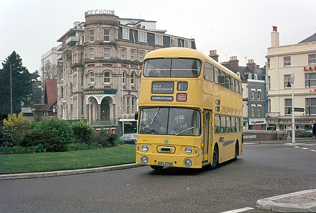 Yellow Bus at the Lansdowne, near to Bournemouth, Great Britain. Bournemouth Corporation buses - later Yellow Buses - had a unique 4-section destination display. Specifically the bottom right hand opening indicated which of a variety of options the bus would use between the Lansdowne and The Square. This was colour coded so that you could tell as the bus approached even before the small lettering was legible. This bus is on its way to Somerford has come up via Bath Road, indicated by a red display. Behind to the right is the eponymous Lansdowne Hotel. This is one of a series of views featuring buses in the 60s, 70s, and 80s. Link